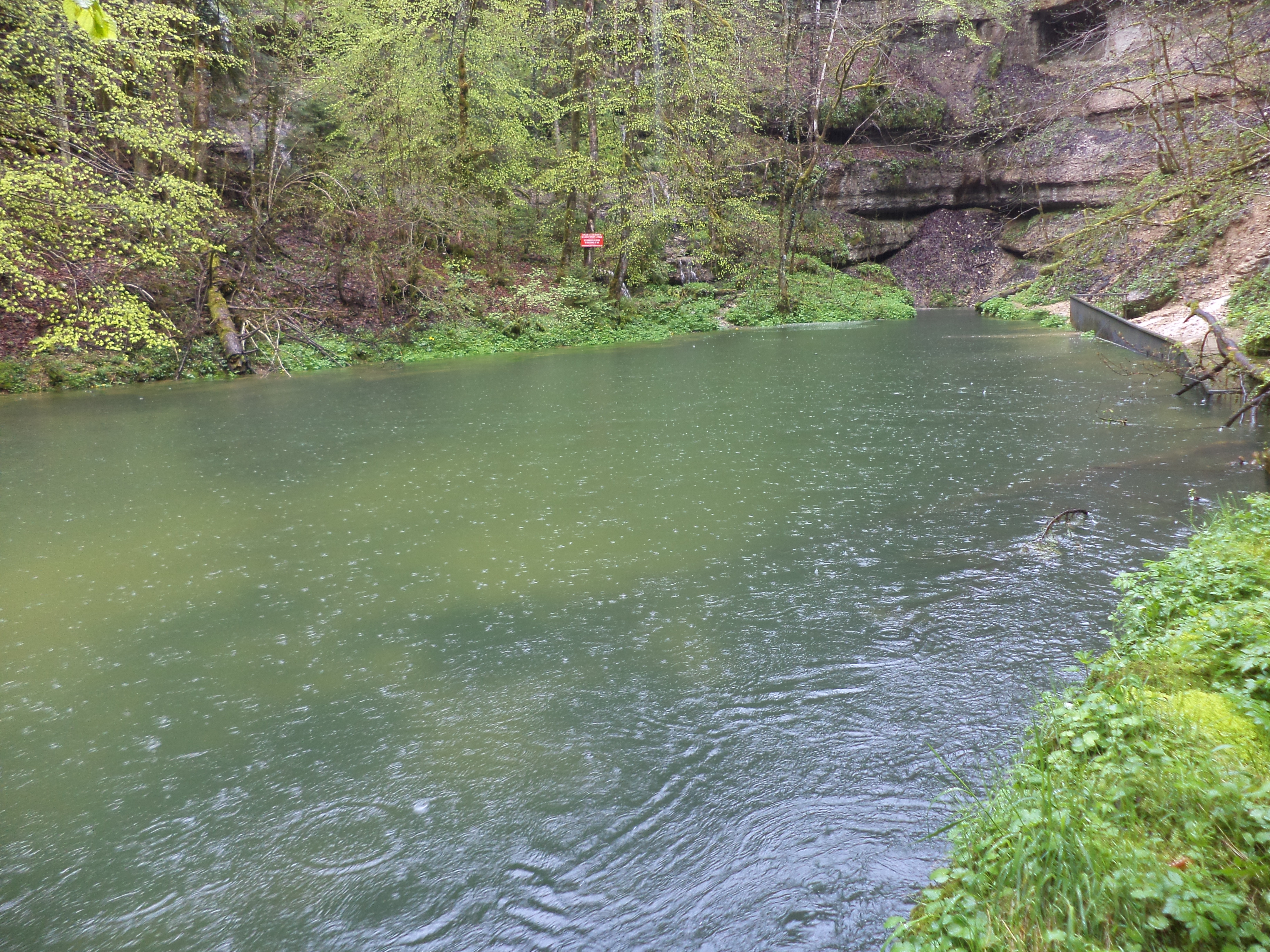 The source of the river Ain in the French Jura